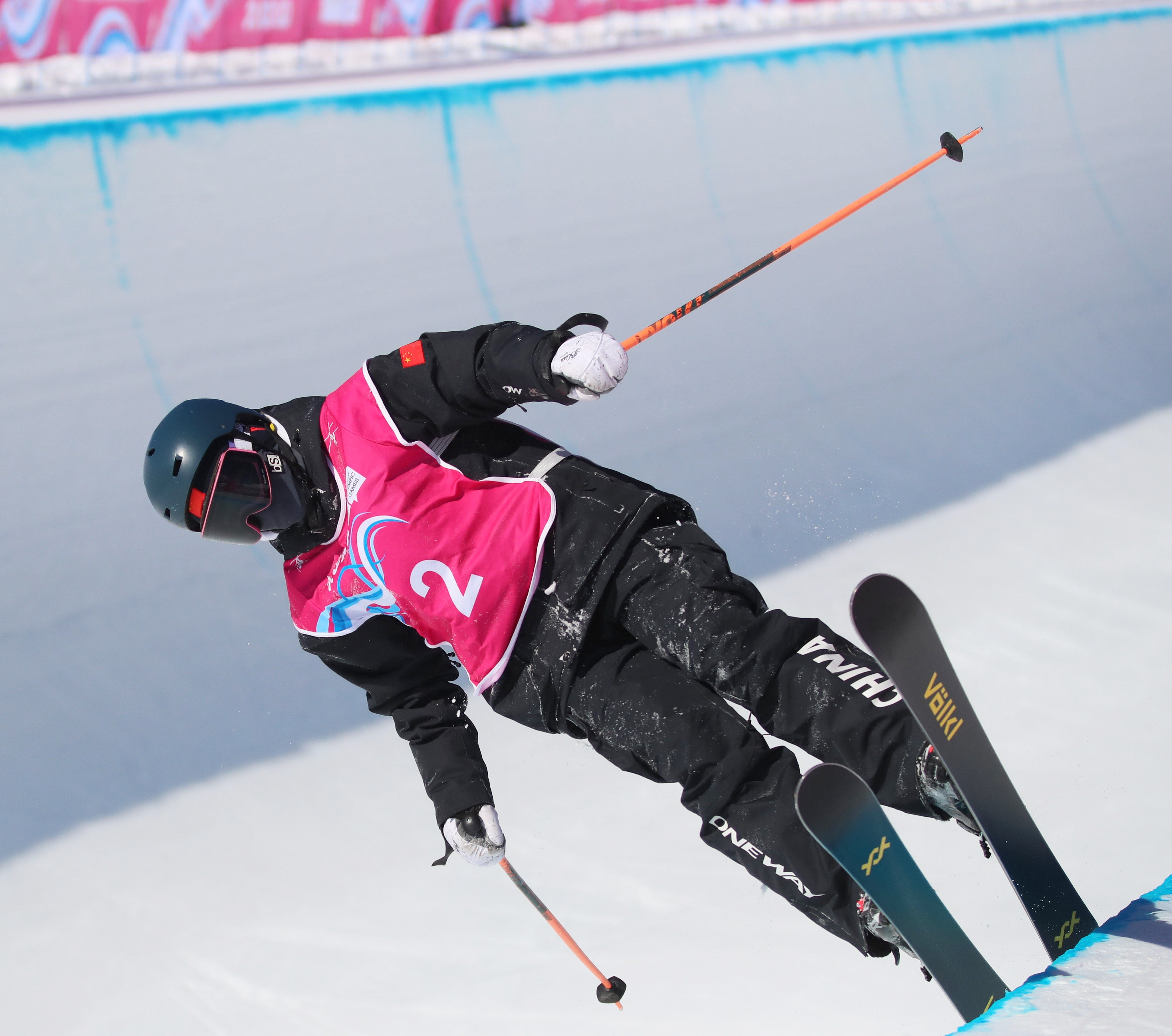 2nd final run of Freestyle skiing – Women's Halfpipe at the 2020 Winter Youth Olympics in Lausanne on 20 January 2020.